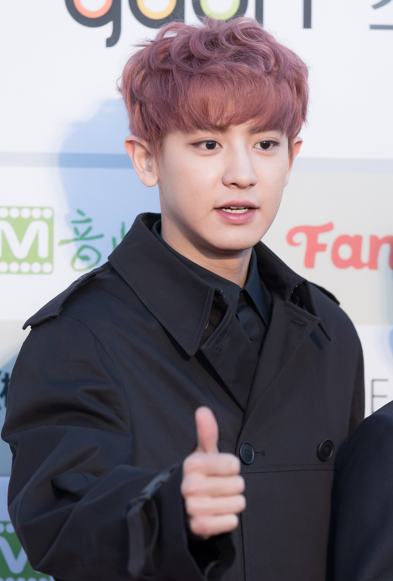 Park Chan-yeol at Gaon Chart K-pop Awards red carpet, on February 17, 2016